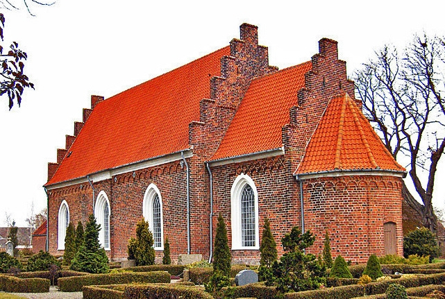 Tillitse Church, Lolland, Denmark. Derivative file with cropping.